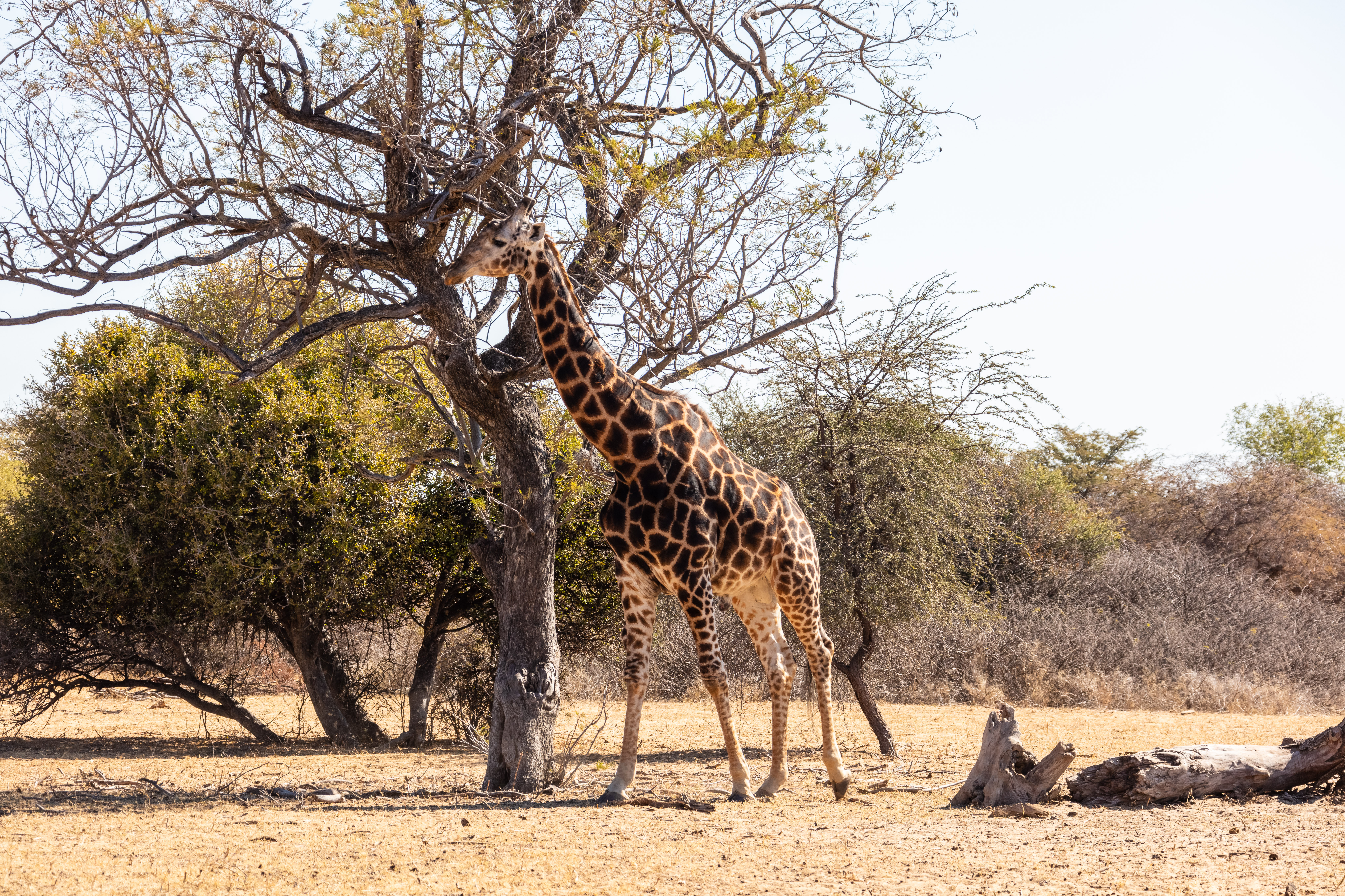 Northern giraffe (Giraffa camelopardalis), Khama Rhino Sanctuary, Botswana